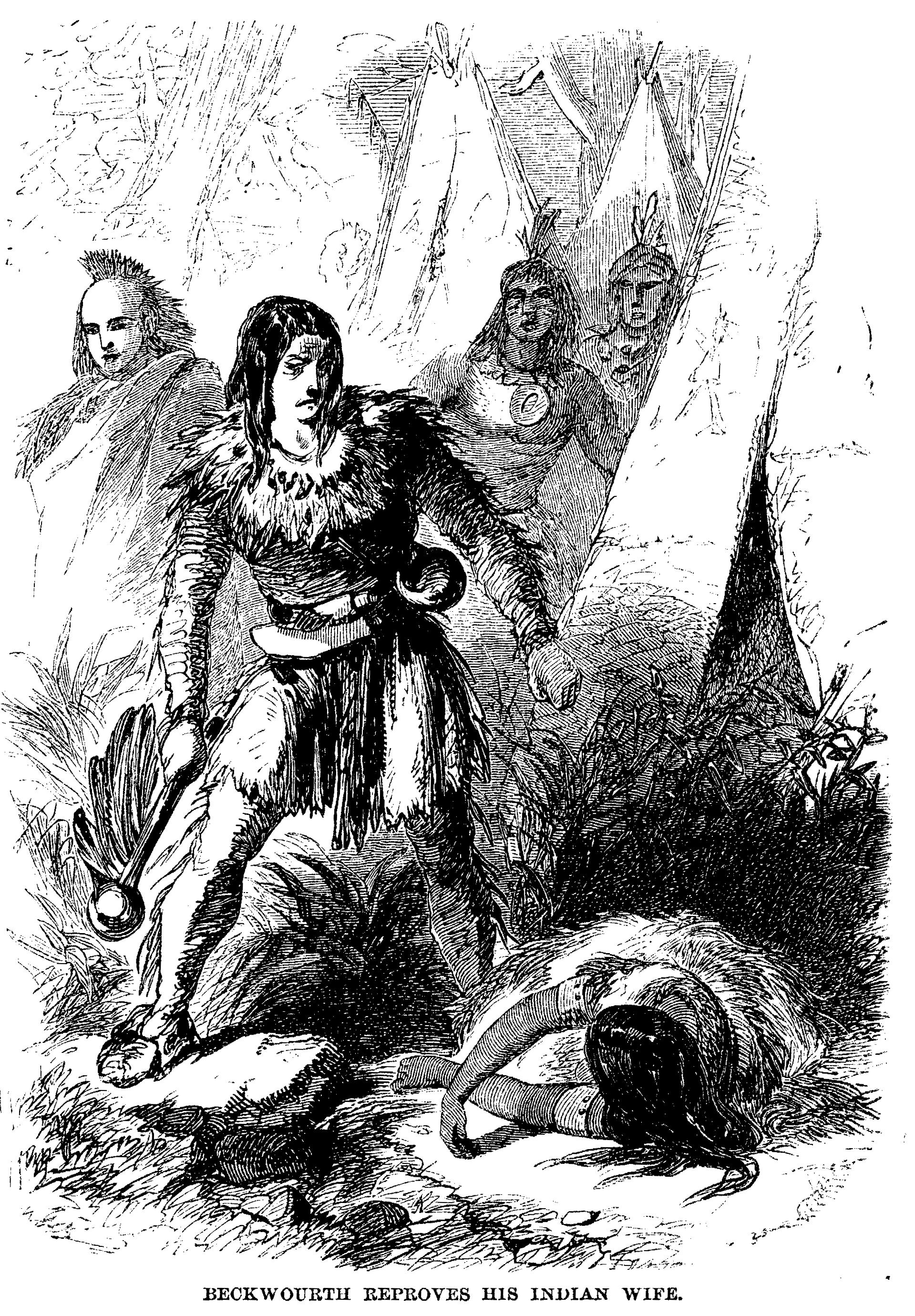 Beckwourth Reproves His Indian Wife